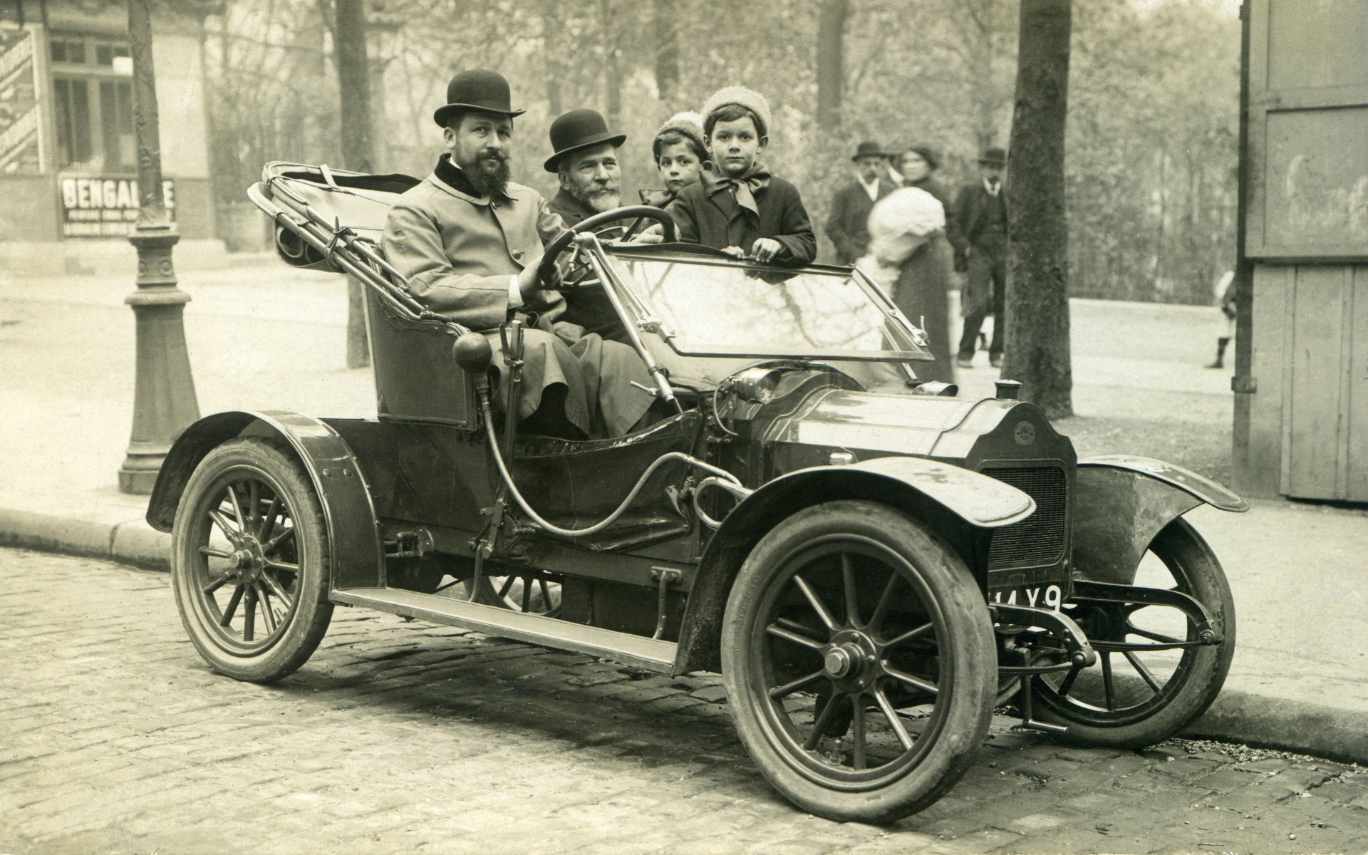 Photograph of 2 men and 2 children in an automobile, Paris.